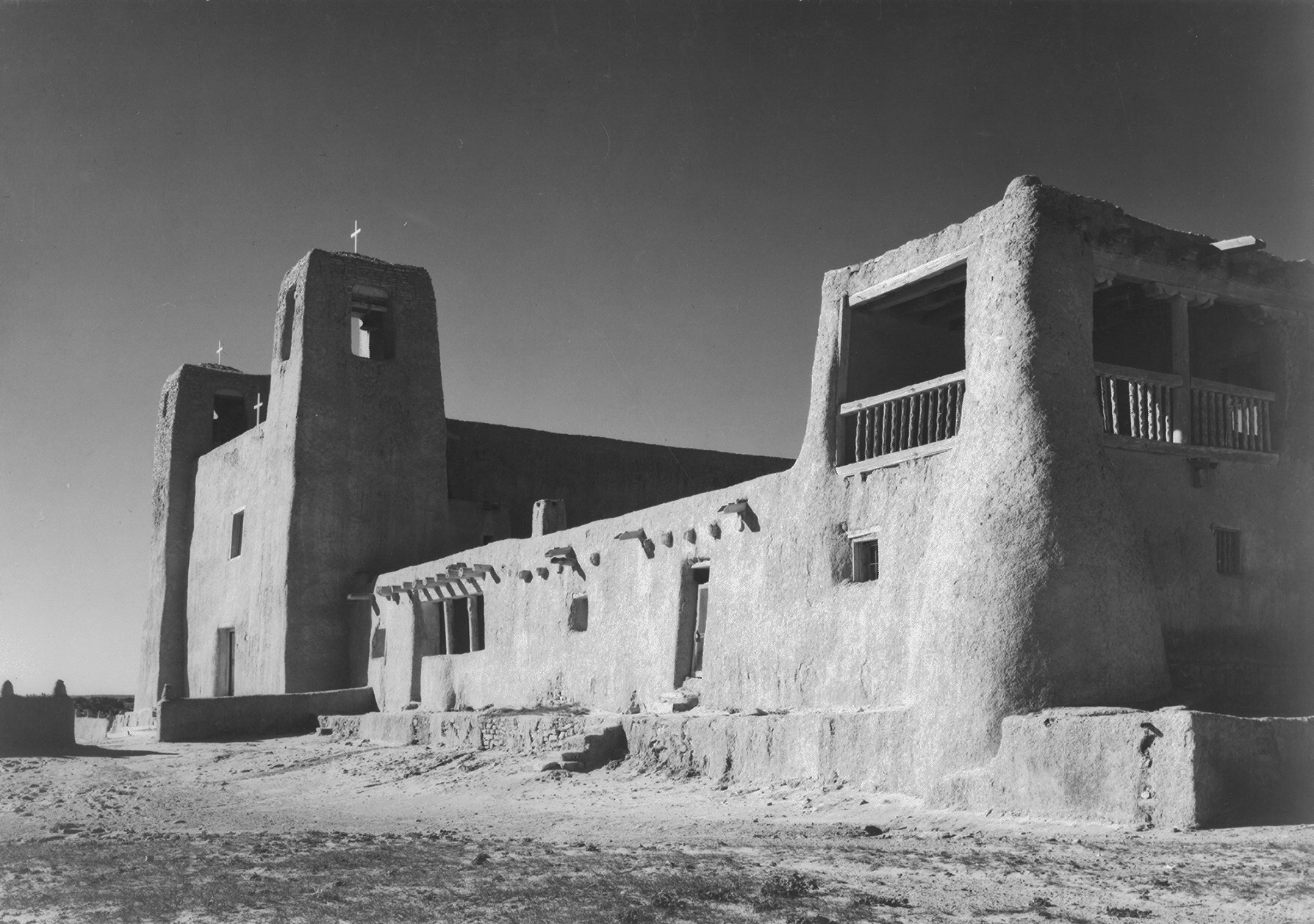 NARA #79-AAA-3 "Church, Acoma Pueblo," corner view showing mostly left wall. Acoma Pueblo mission church in New Mexico, photographed by Ansel Adams.